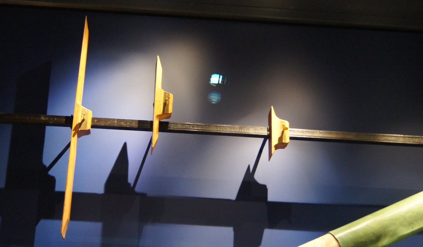 Jacob's staff, 17th century, Landesmuseum Württemberg, Stuttgart